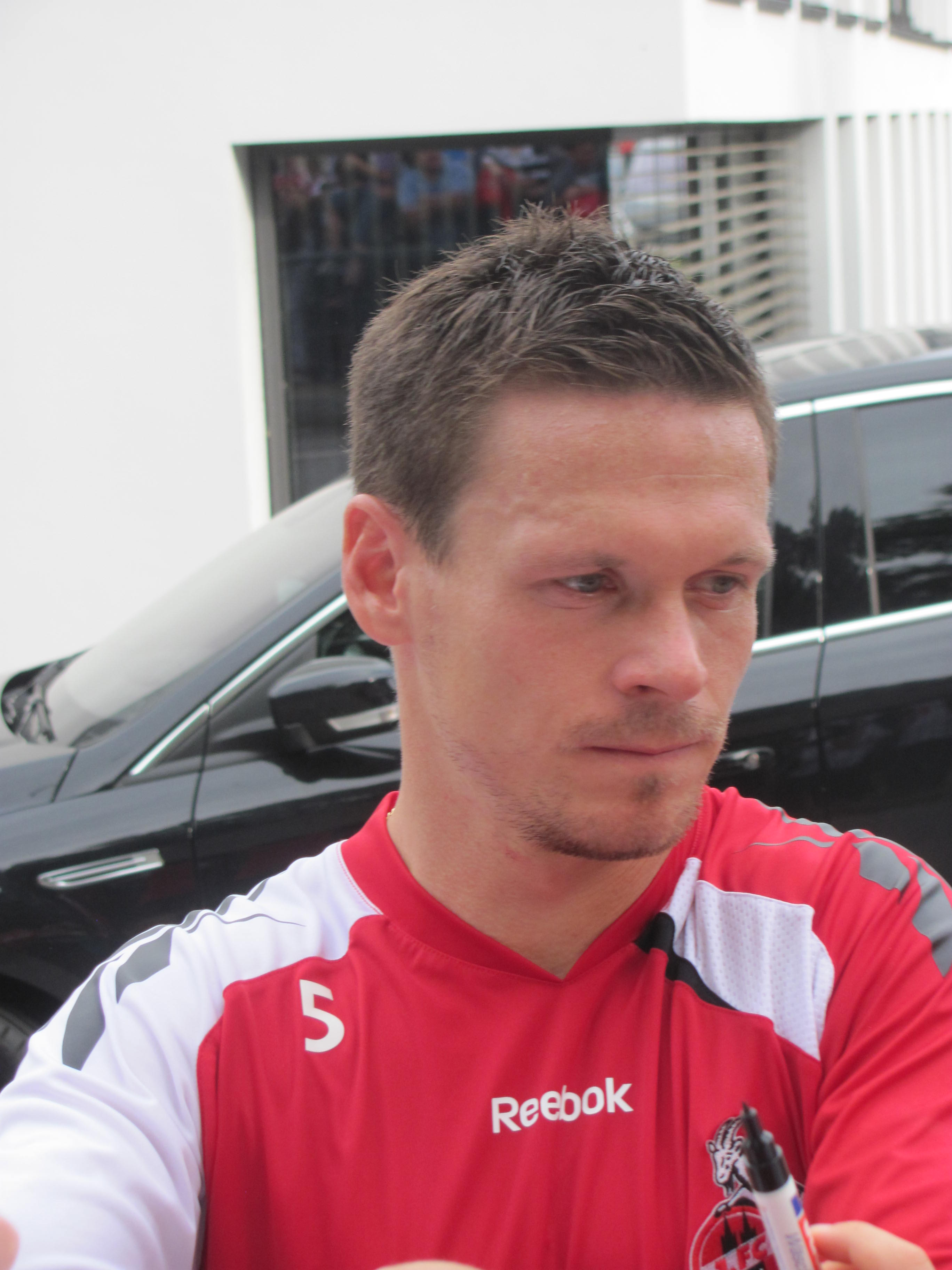 Sasche Riether